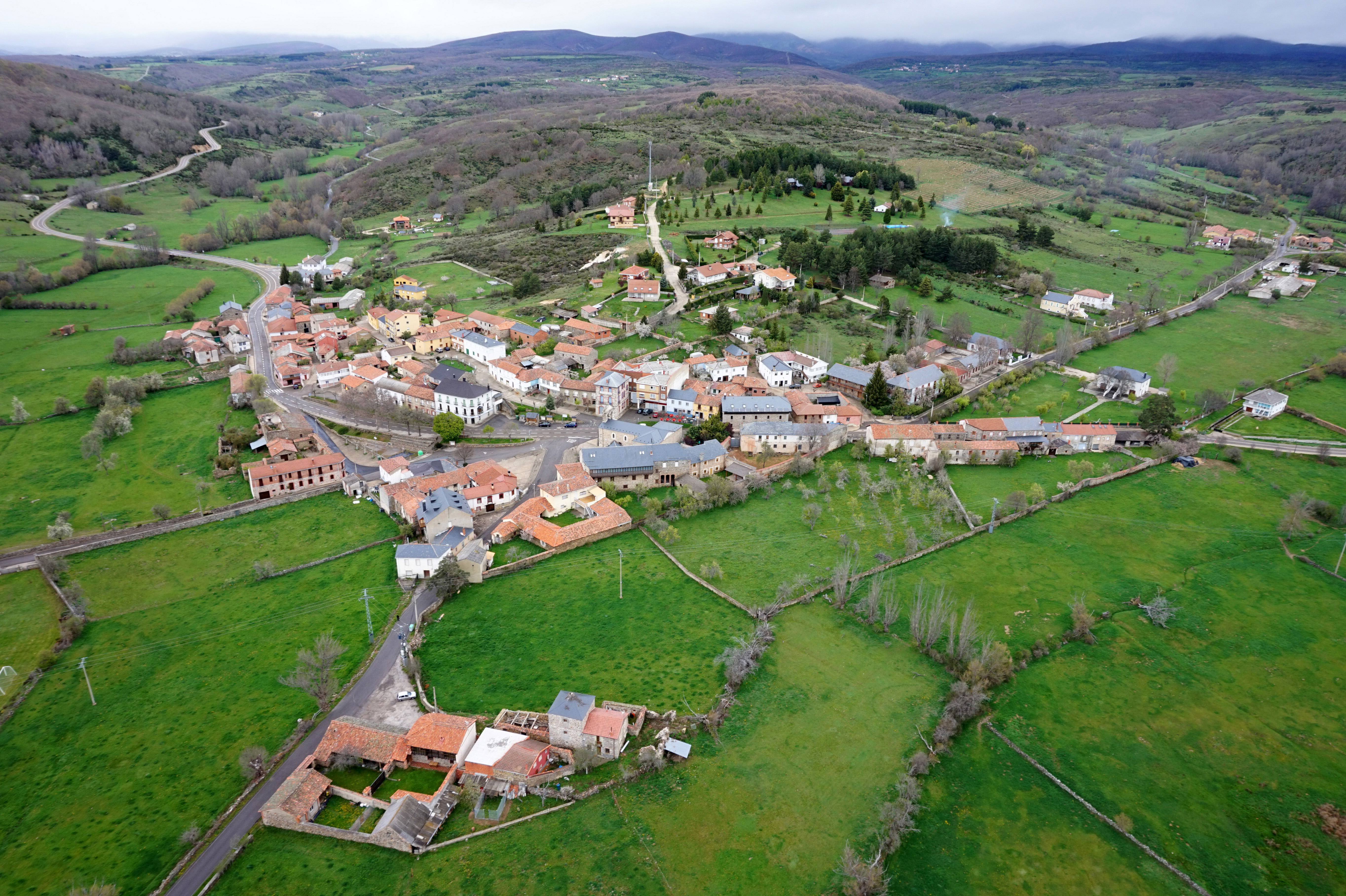 Aerial view of Riello from South (León, Spain). Picture taken by Smart Drone with a drone.